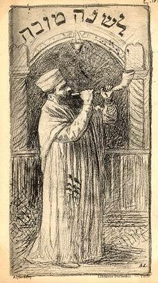 Alphonse Lévy : Shofar inscription : לשנה טובה (Happy New Year!) Alphonse Lévy lived 1843-1918, so the copyright is expired in the US (and also in France as well)